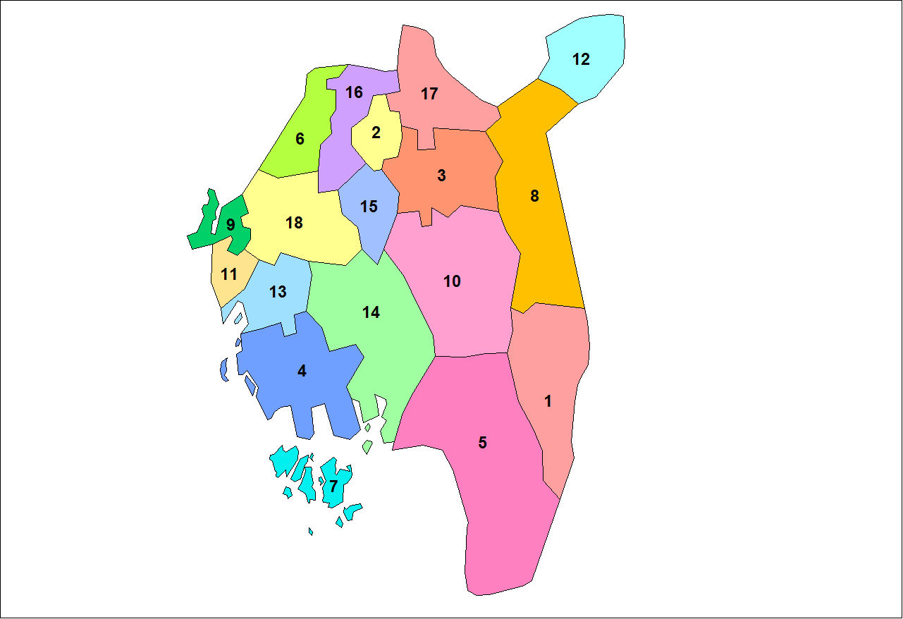 Map of the municipalities of Ostfold county in Norway. Created by Rarelibra 16:44, 20 March 2007 (UTC) for public domain use, using MapInfo Professional v8.5 and various mapping resources.